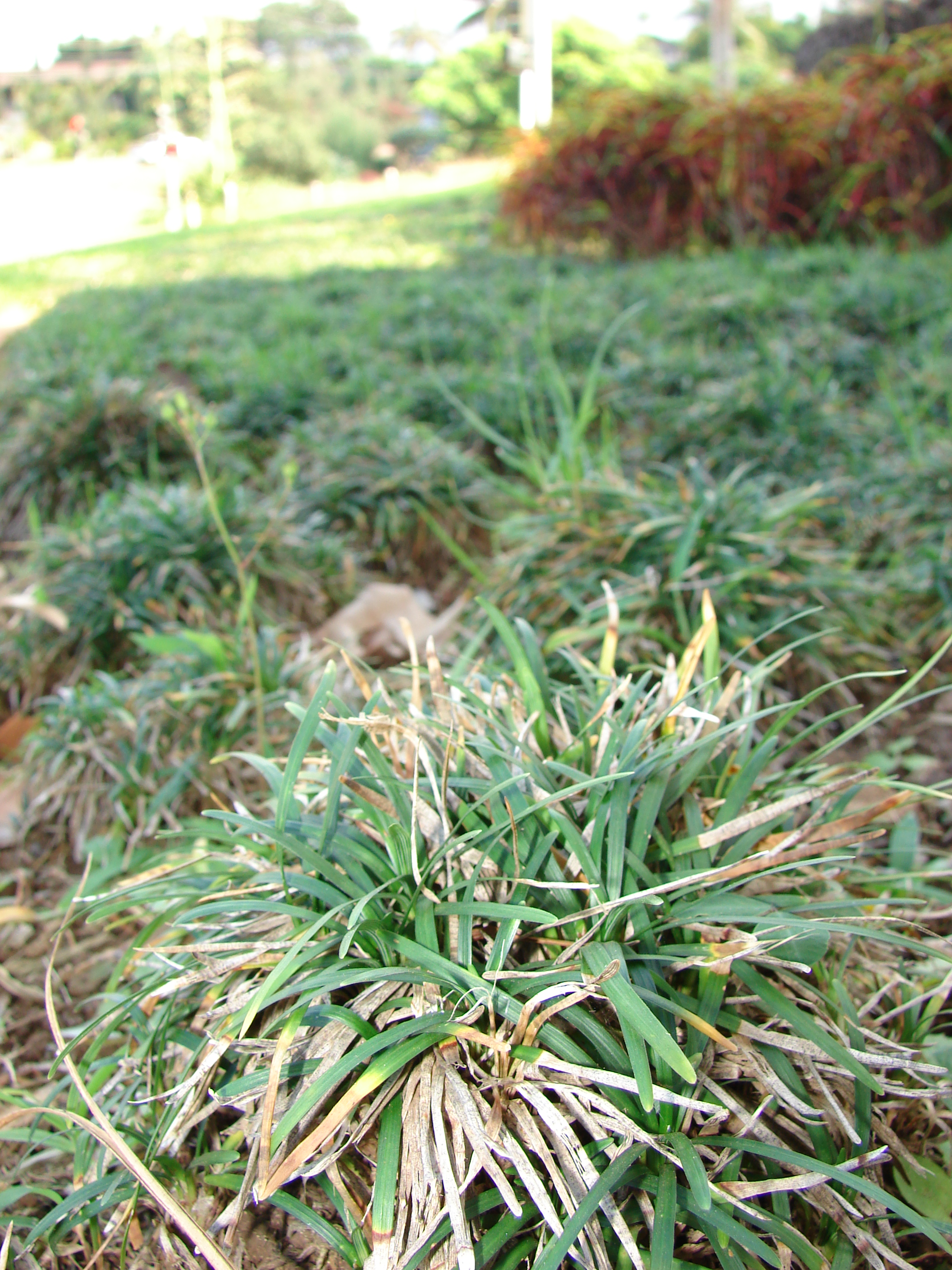 Ophiopogon japonicus (habit). Location: Maui, Kihei